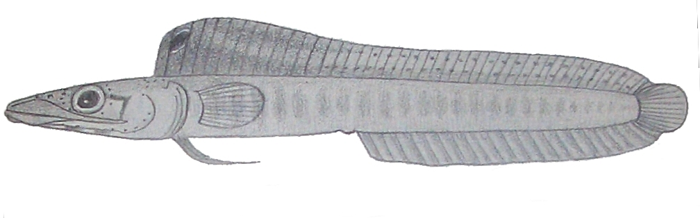 The Resh Pikeblenny (Chaenopsis resh): by Ray Simpson